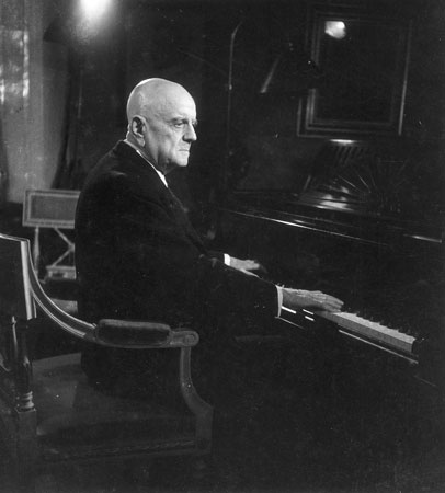 Jean Sibelius at the piano.